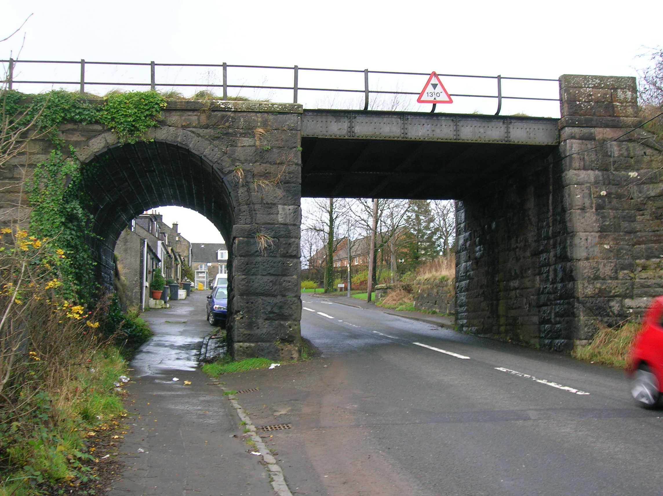 The village of Barrmill seen through the arch of the pedestrian tunnel of the MOD railway bridge. North Ayrshire, Scotland